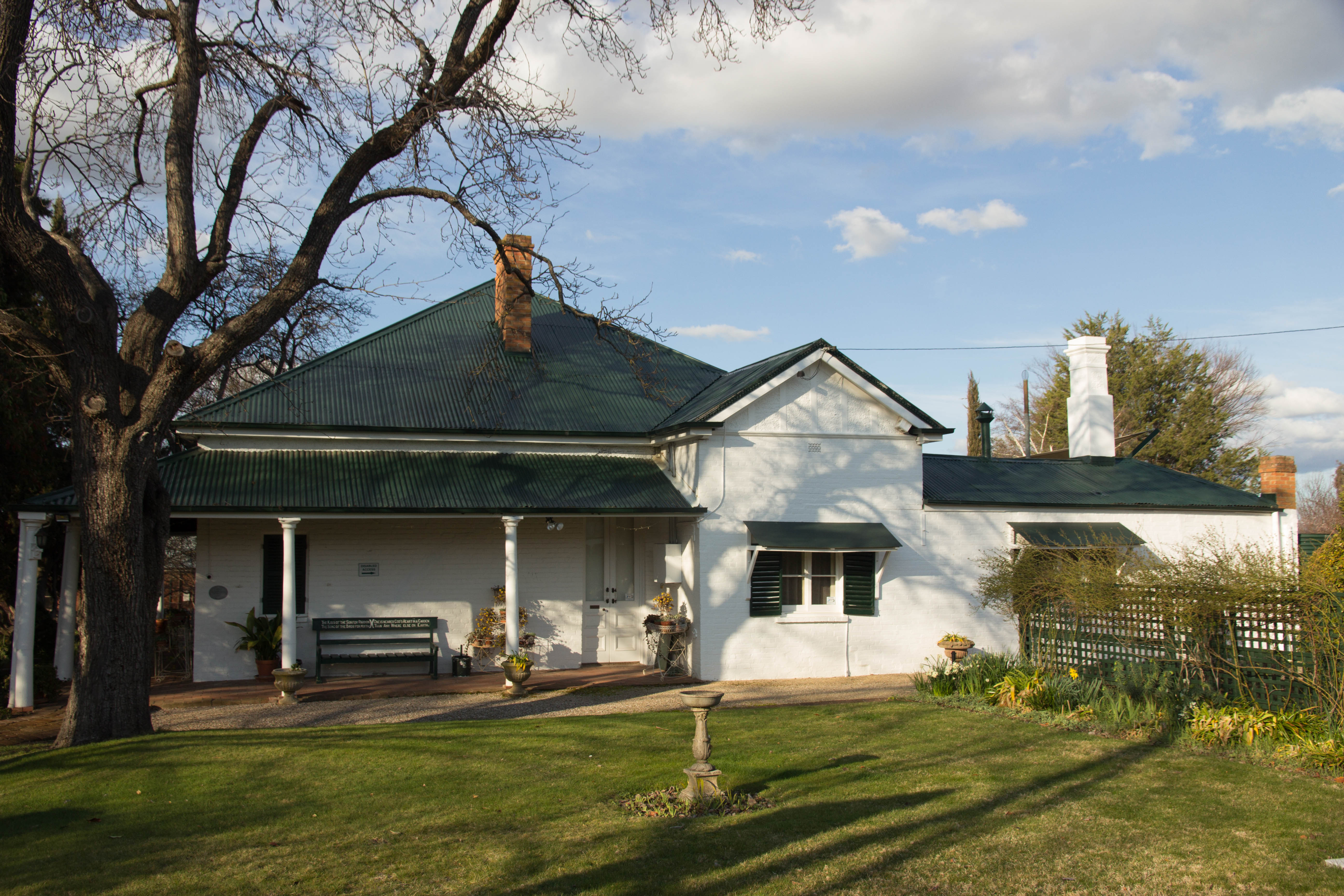 National Trust of Australia owned house in Bathurst, New South Wales